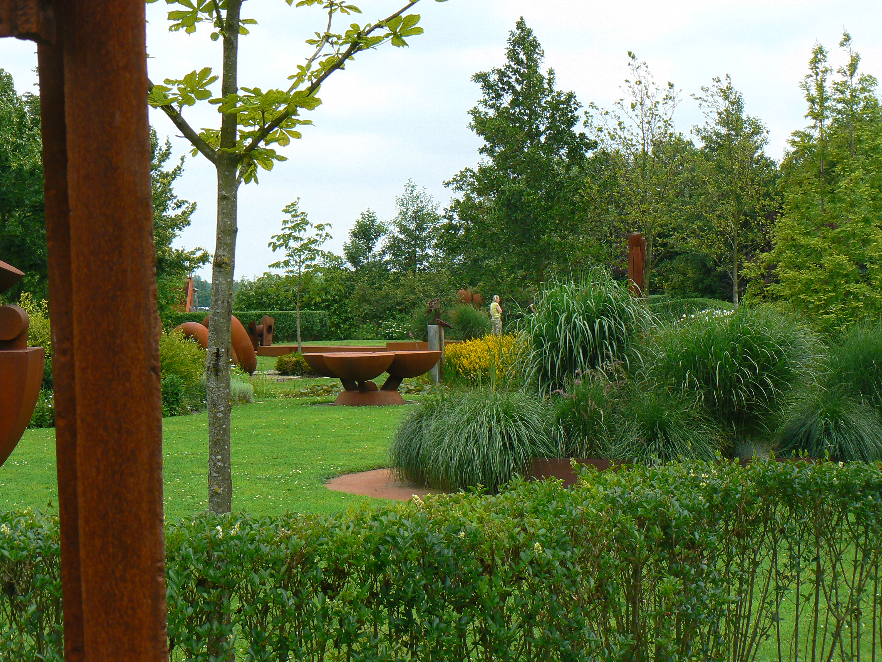 Sculpture Park Funnix in Funnix/Germany